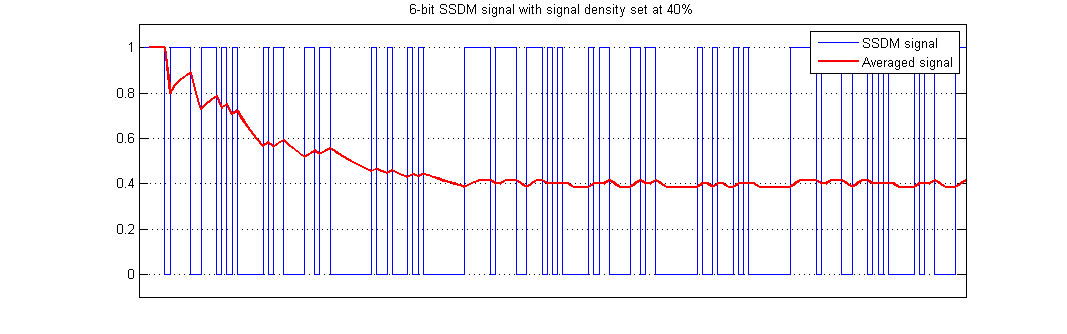 Illustrates the nature of SSDM signal and how the average signal density approaches a desired value. Also, the repetitive nature of the signal is visible.